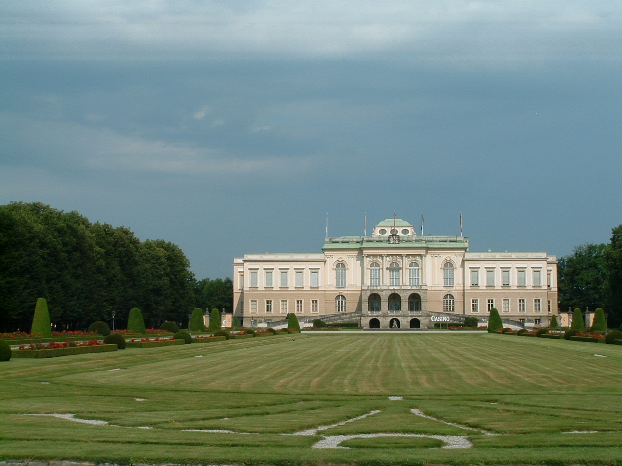 Klessheim Castle, Salzburg Photograph by Gakuro 2006